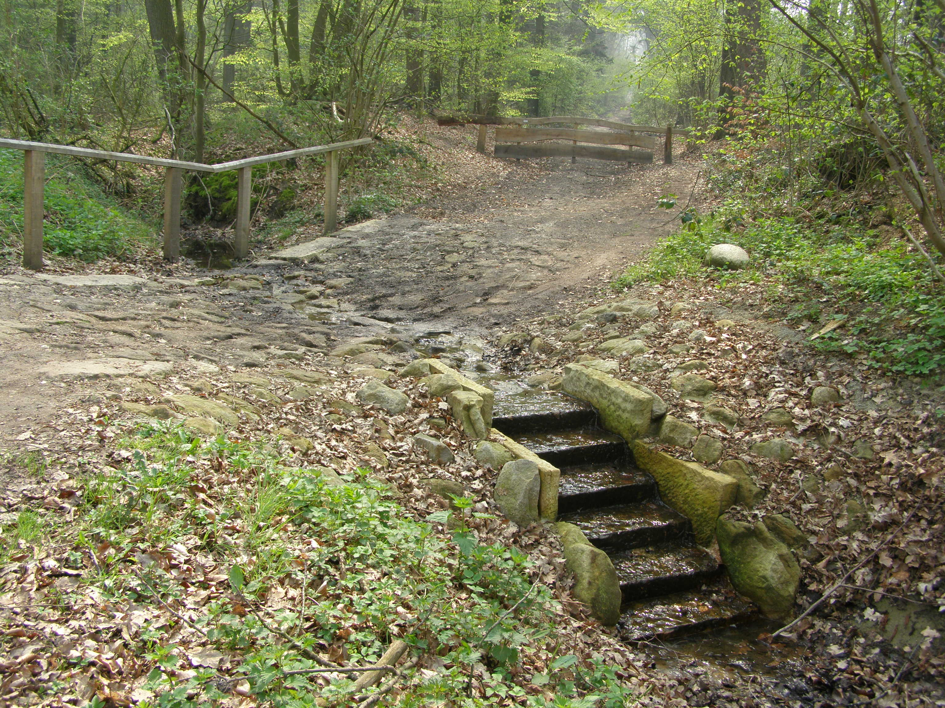 Landscape on the Paasberg (Overijssel)